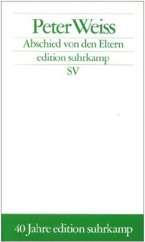 Book cover of Peter Weiss "Abschied von den Eltern" 1961